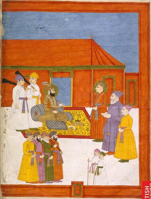 Abd al-Samad Khan received by Jahandar Shah (1712-1713). Punjab, late 18th century.*